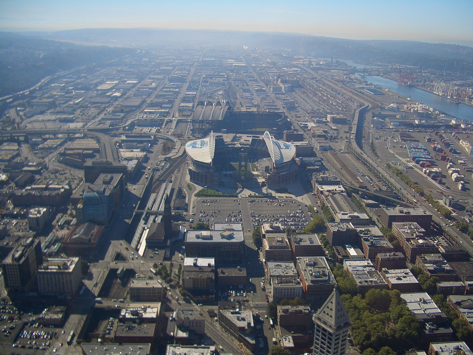 A view of Seattle looking south from the observation deck of Columbia Center. QWEST Field, and beyond it Safeco Field, can be seen.)